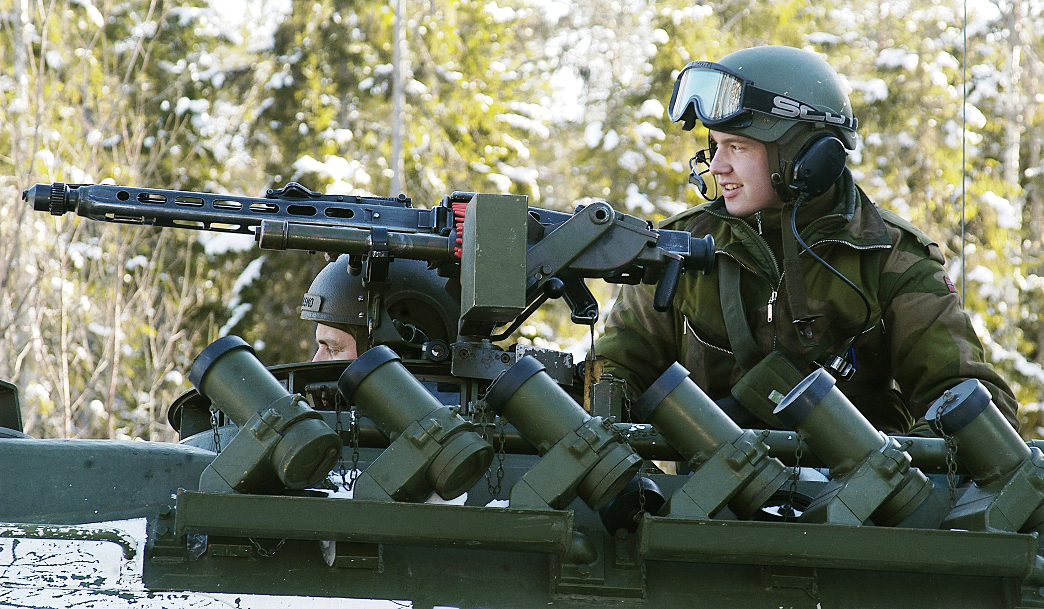 A Norwegian soldier stands guard at a vehicle roadblock on Route 17 as part of training during exercise Battle Griffin 2005. Battle Griffin is an invitational exercise that tests the interoperability of multinational forces' tactics and systems.